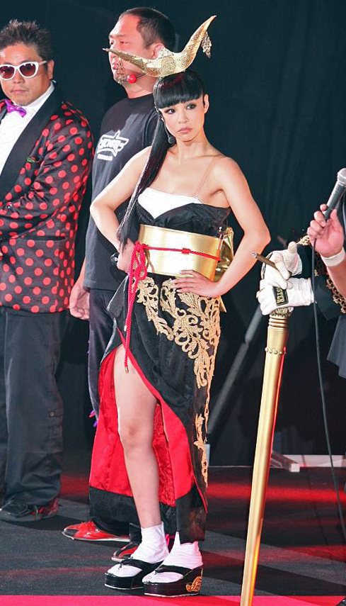 Yinling at the Hustle 30, in the Yoyogi National Gymnasium on April 13, 2008.